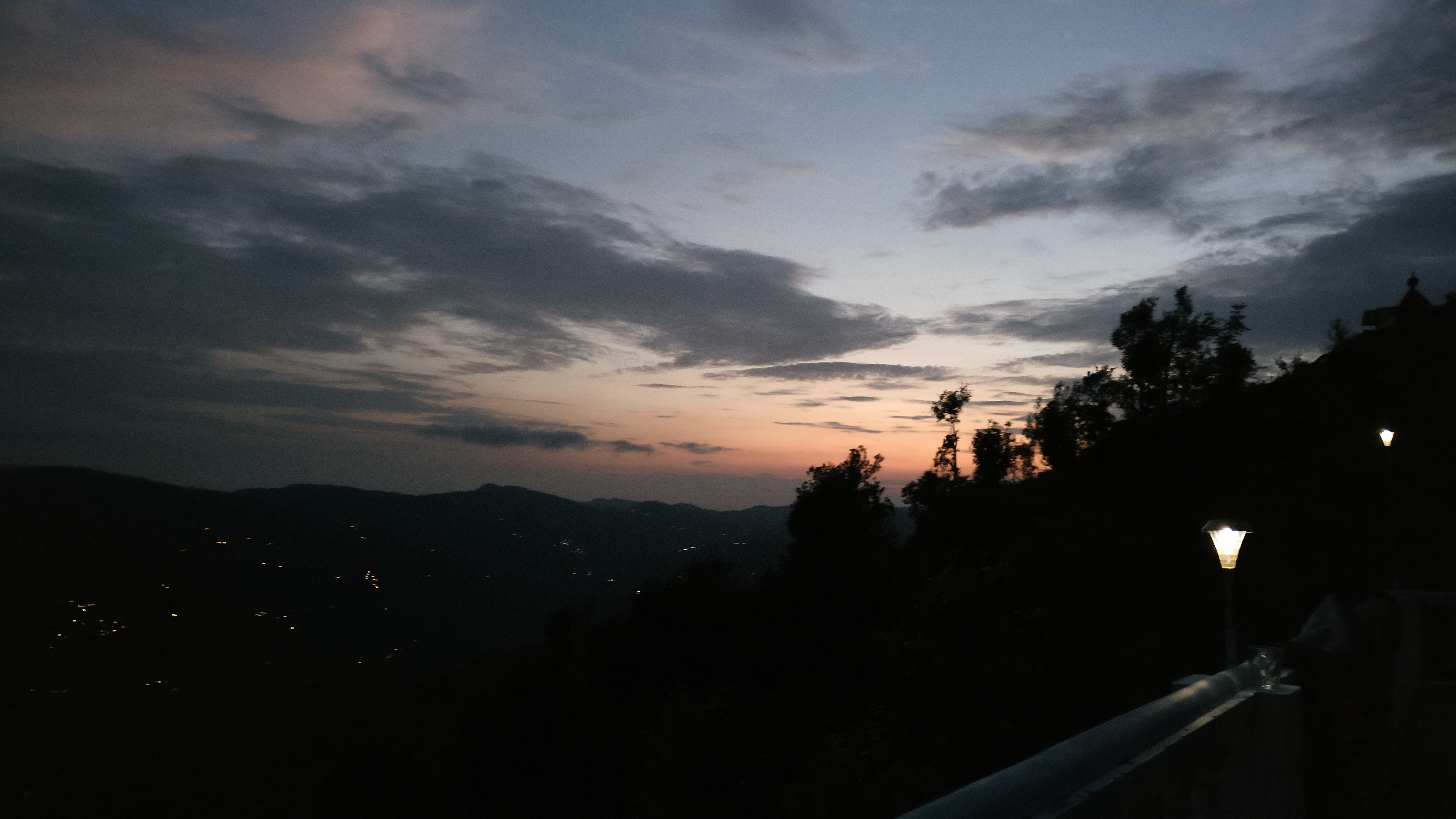 Beautiful evening from Bhargaon